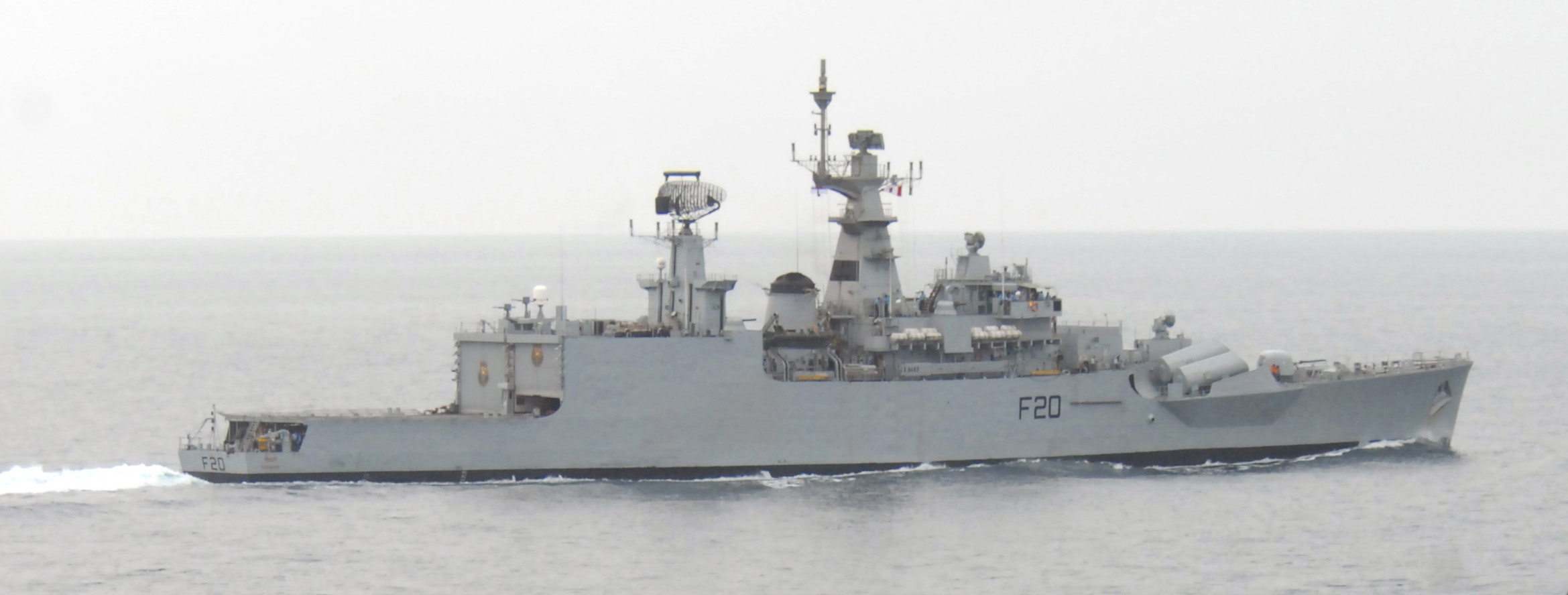 081020-N-1635S-004 INDIAN OCEAN (Oct. 20, 2008) The Indian Navy ship INS Godavari (F20) pulls away from the Military Sealift Command fast combat support ship USNS Bridge (T-AOE 10) after conducting a replenishment at sea. Bridge is participating in Malabar 2008, a bilateral exercise between the United States and India.